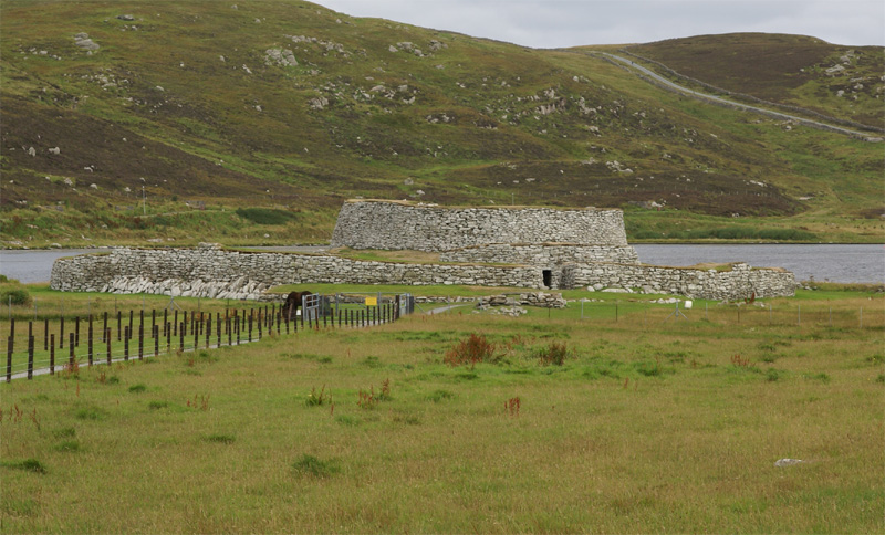 Clickimin Broch, Lerwick, Shetland, Scotland - from the south